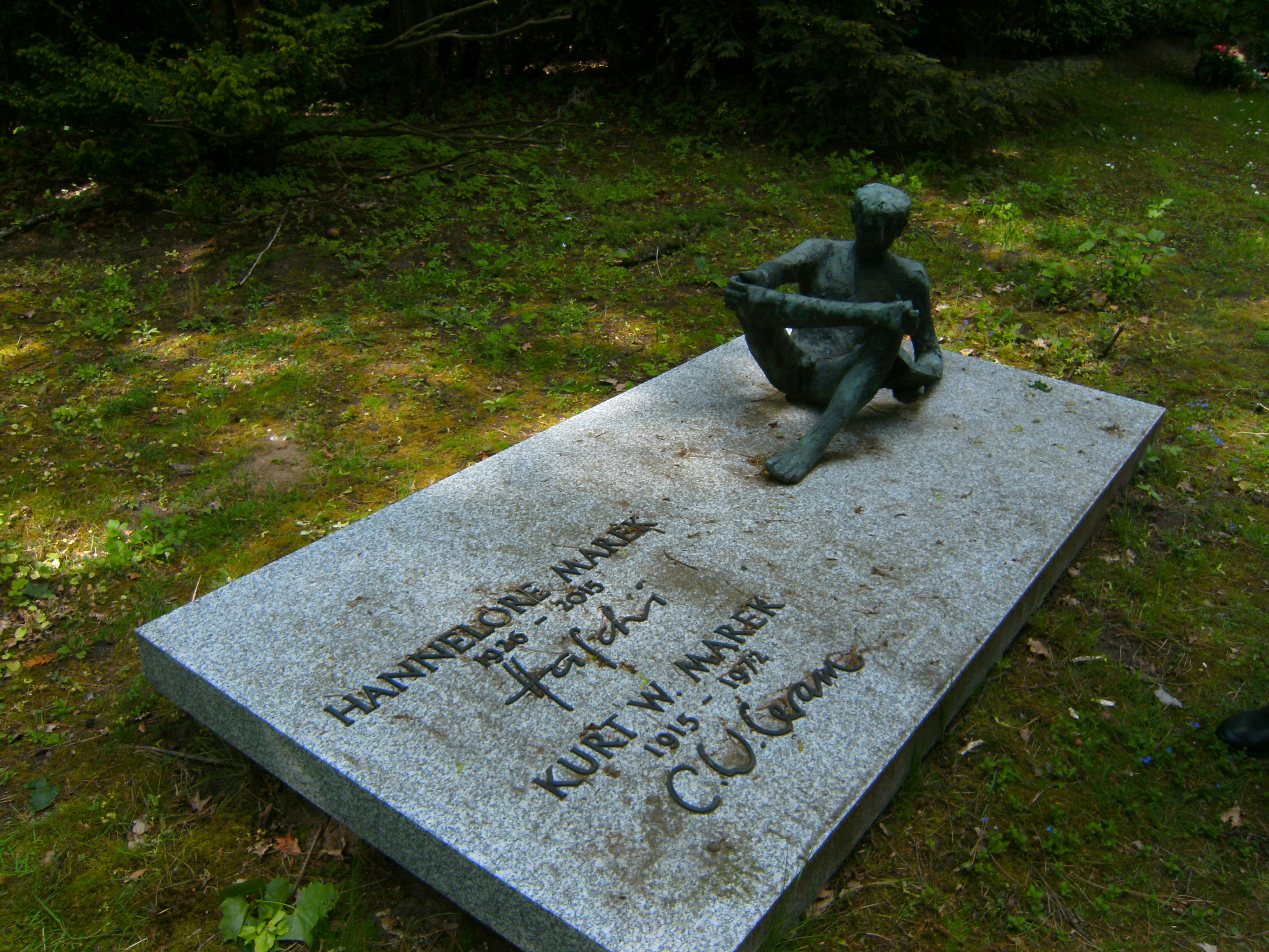 Grave of journalist and author C. W. Ceram at Friedhof Ohlsdorf in Hamburg, Germany. The sculpture was created by German sculptor Erich Fritz Reuter in 1972.